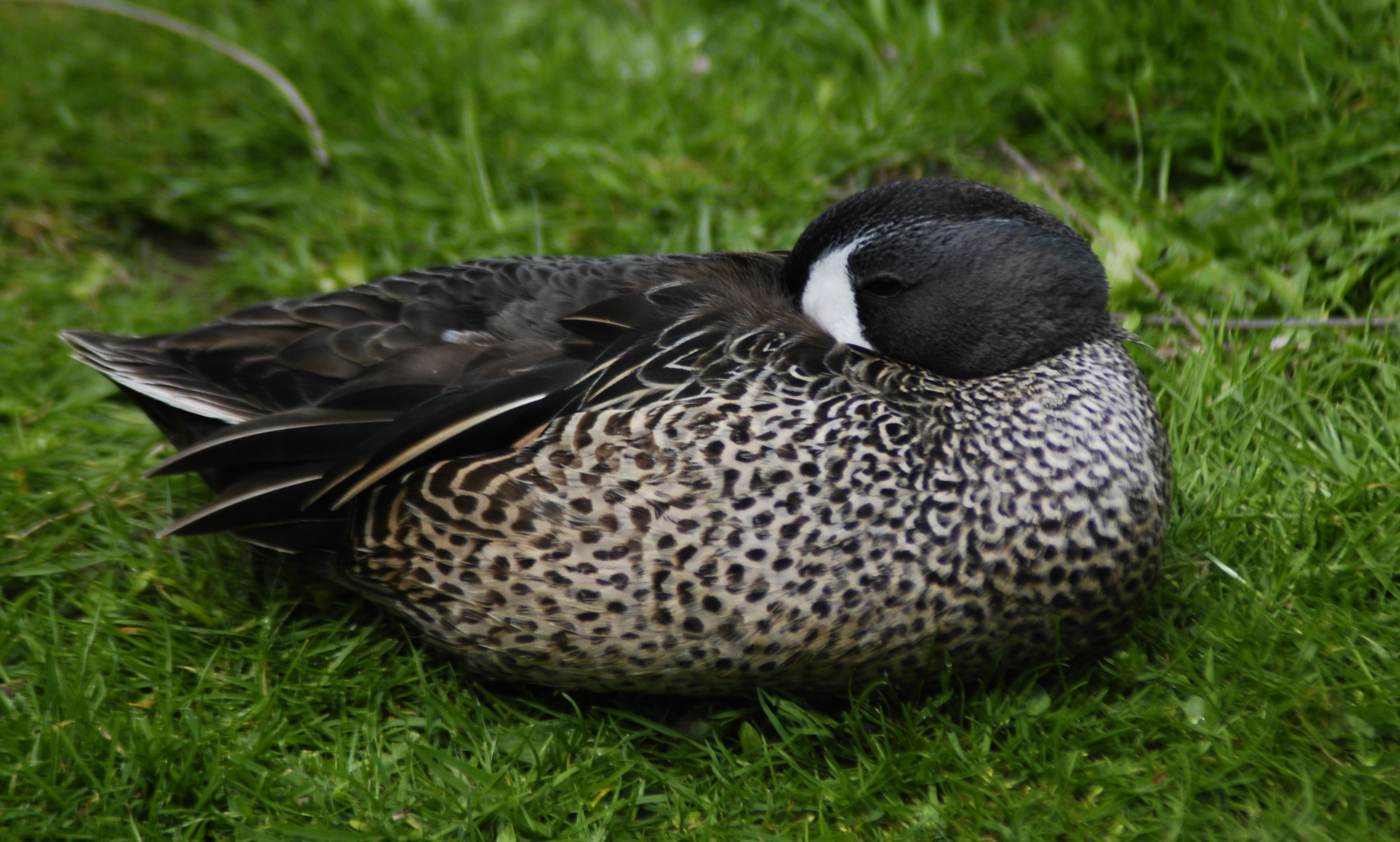 Blue-winged teal (Anas discors)